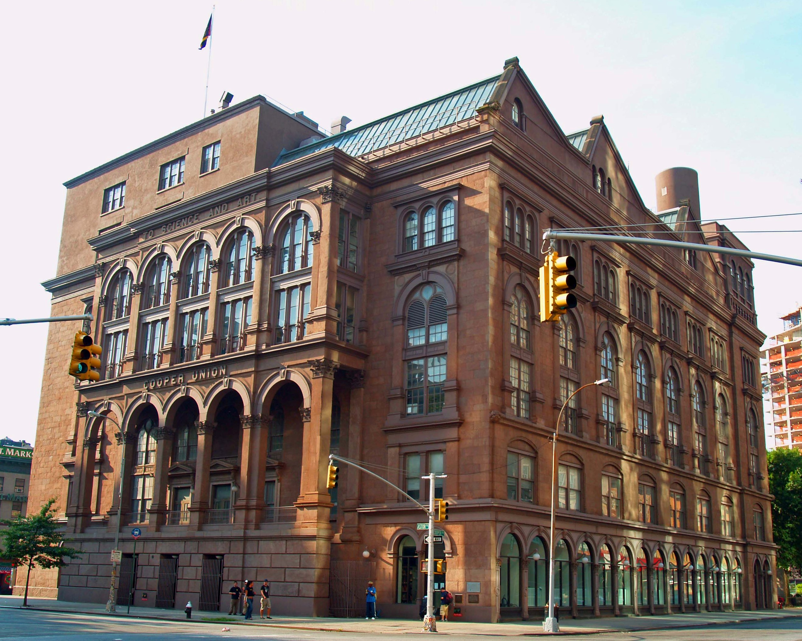 Cooper Union Foundation Building, built 1853-1859, designed by Frederick A. Peterson. The place of Leon Trotsky public meetings in 1917.